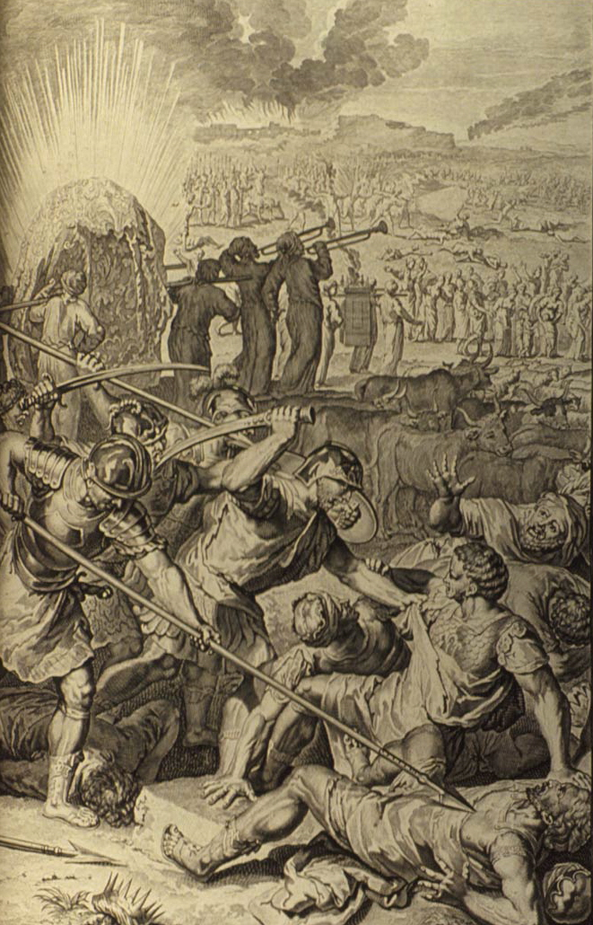 Five Kings of Midian Slain by Israel, as in Numbers 31:8; illustration from the 1728 Figures de la Bible; illustrated by Gerard Hoet (1648-1733) and others, and published by P. de Hondt in The Hague; image courtesy Bizzell Bible Collection, University of Oklahoma Libraries